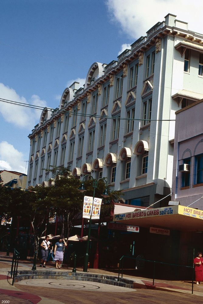 TC Beirne Complex and Fortuneland Centre (2000) - view along Brunswick Street